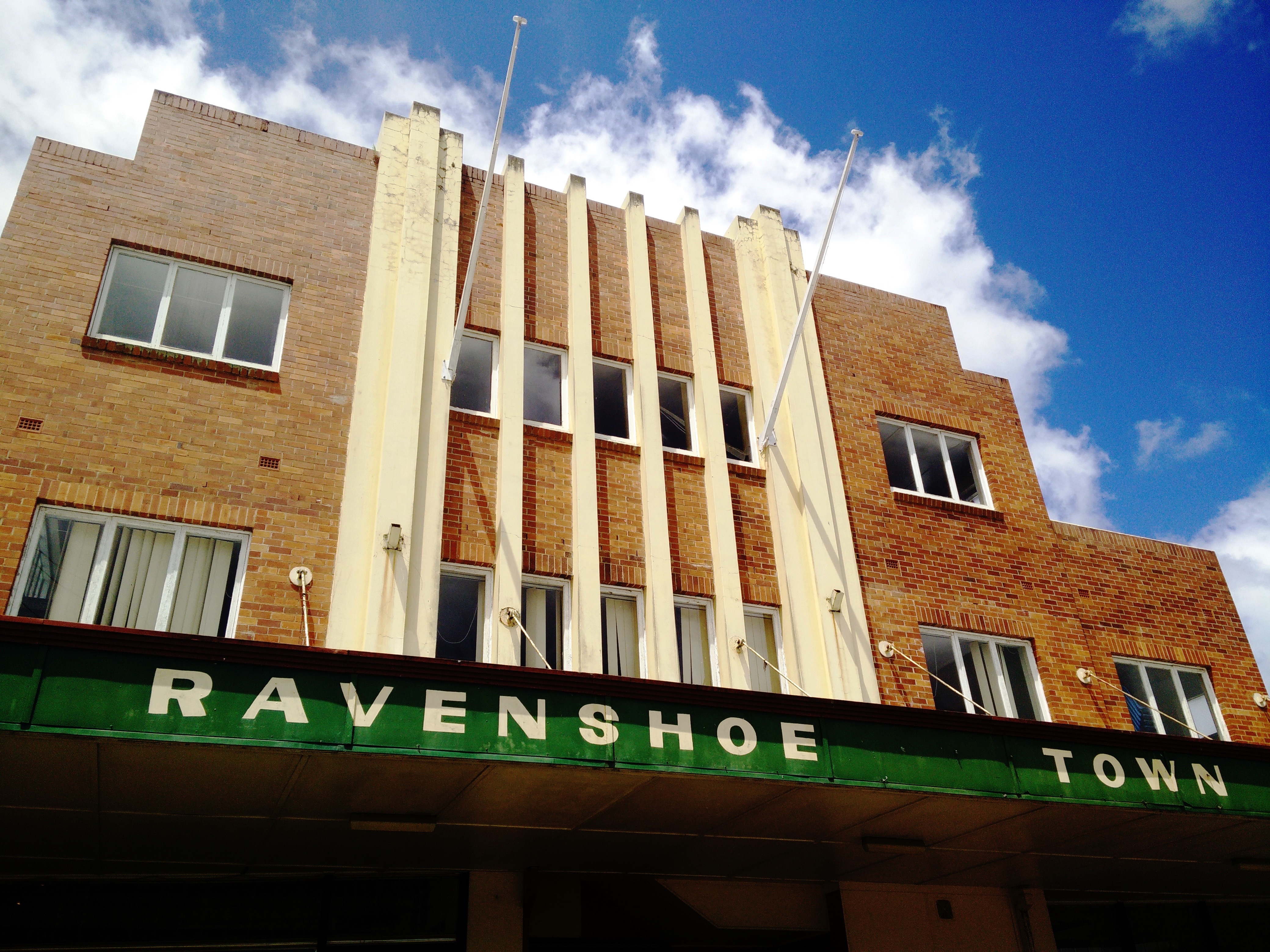 Taken in Far North Queensland, October 2015